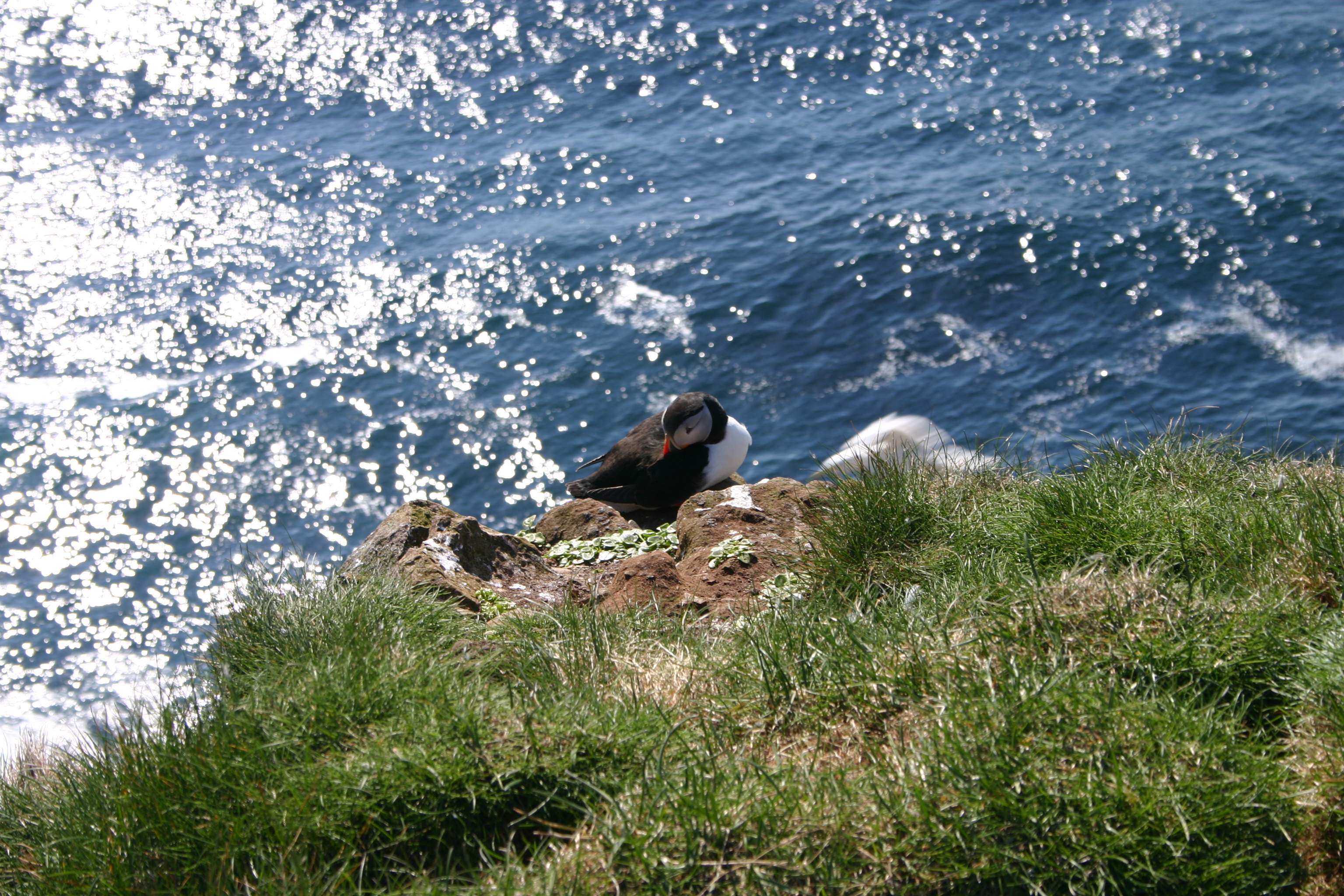 Atlantic Puffin (Fratercula arctica) in Latrabjarg, June 2008